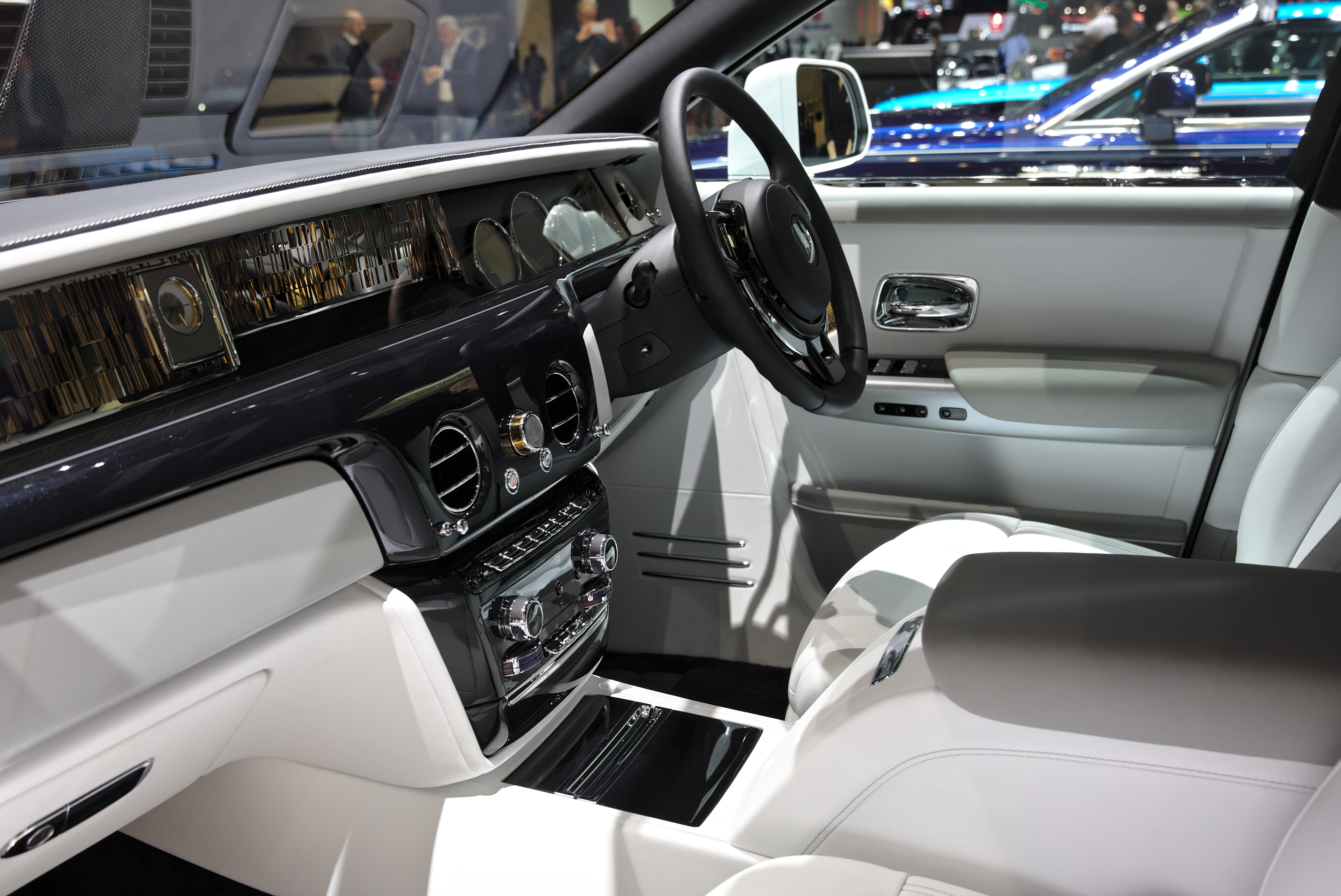 Rolls-Royce Phantom VIII Tranquillity Collection at Geneva Motor Show 2019